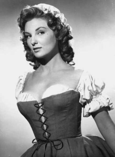 Allison Hayes in Mohawk (1956) - publicity still (cropped)